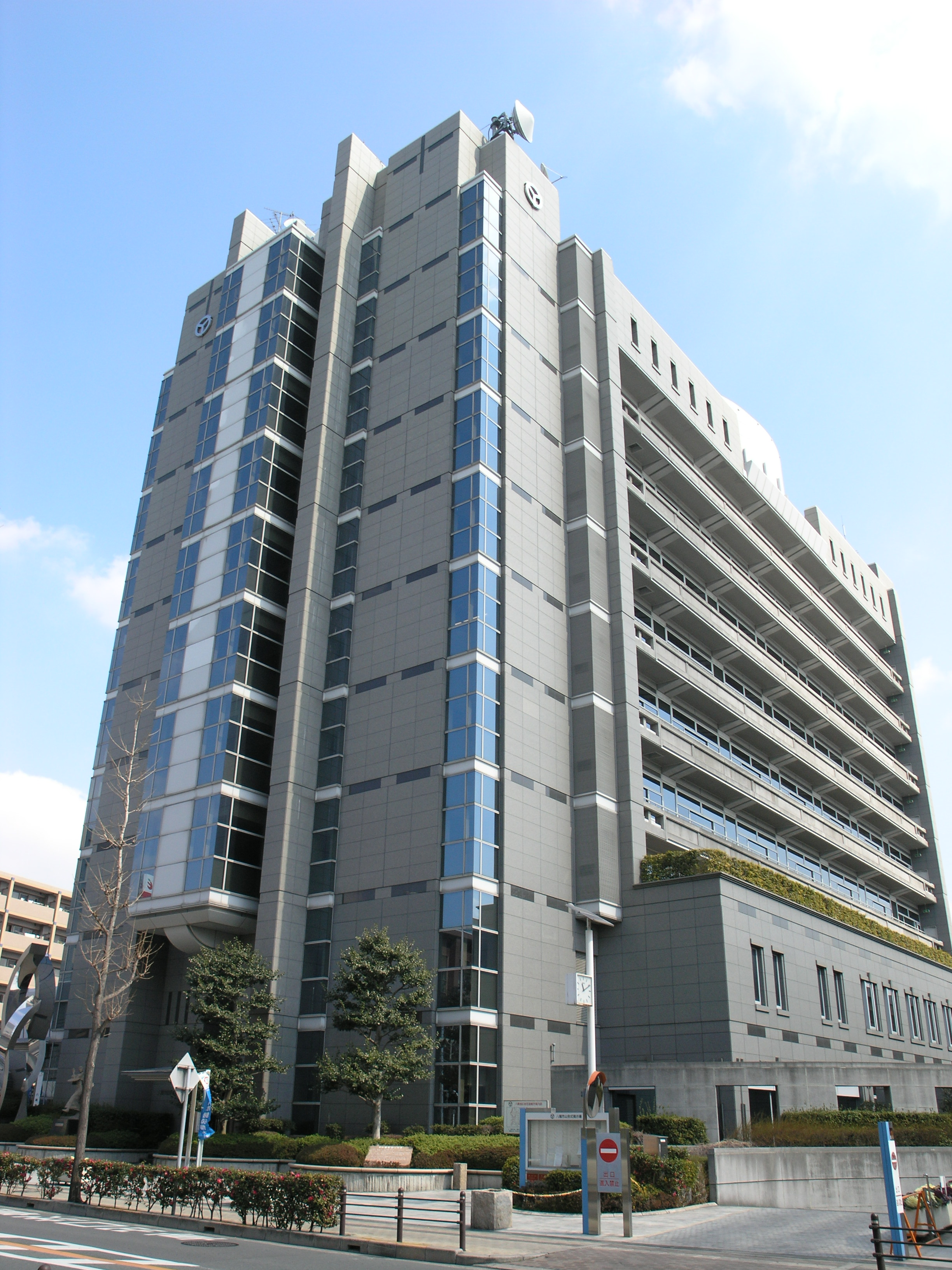 Yao City Hall in Osaka-fu, Japan